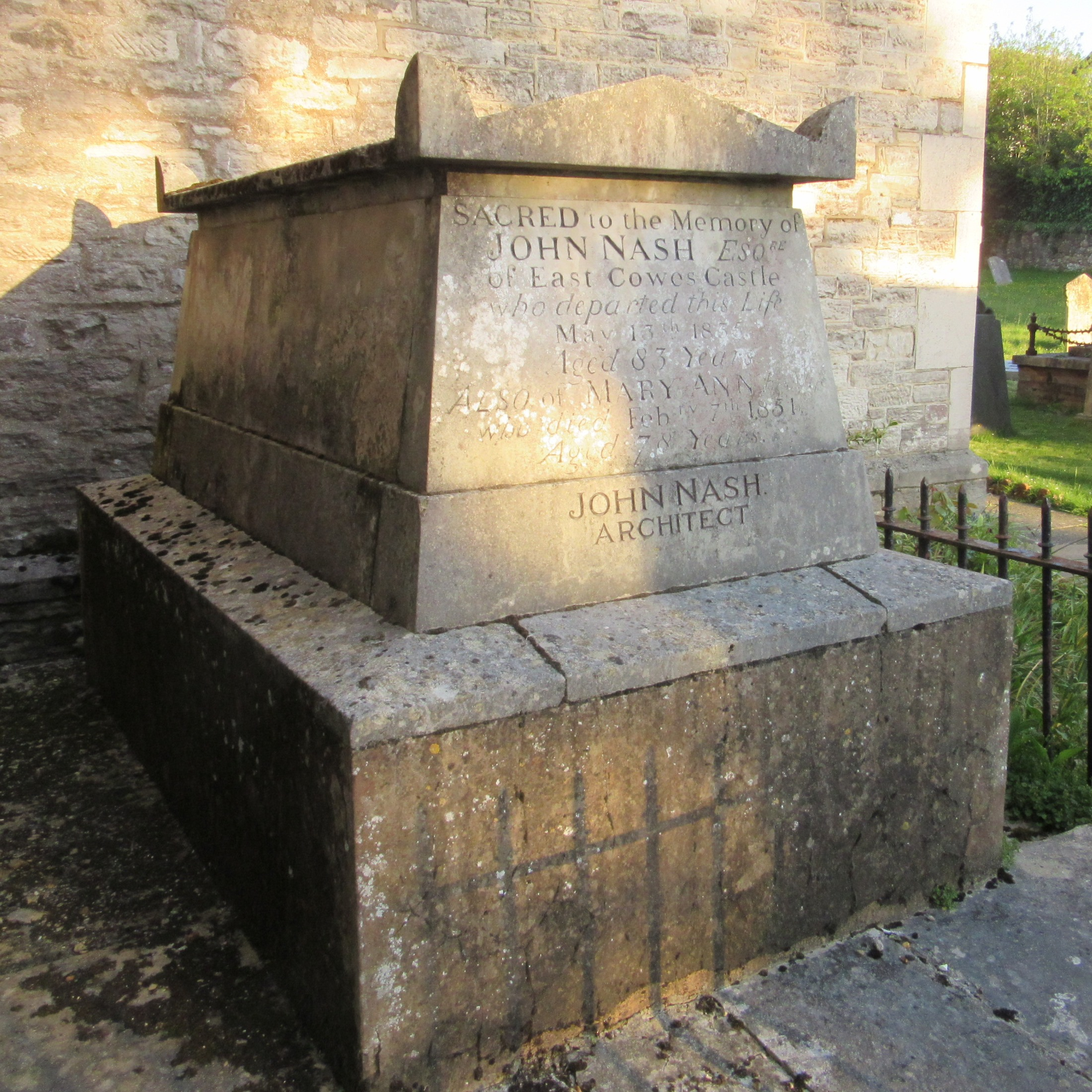 Tomb of John Nash (1752–1835) at St James's Church, Church Path, East Cowes, Isle of Wight, England. The famous architect designed the original church here, and lived at East Cowes Castle.